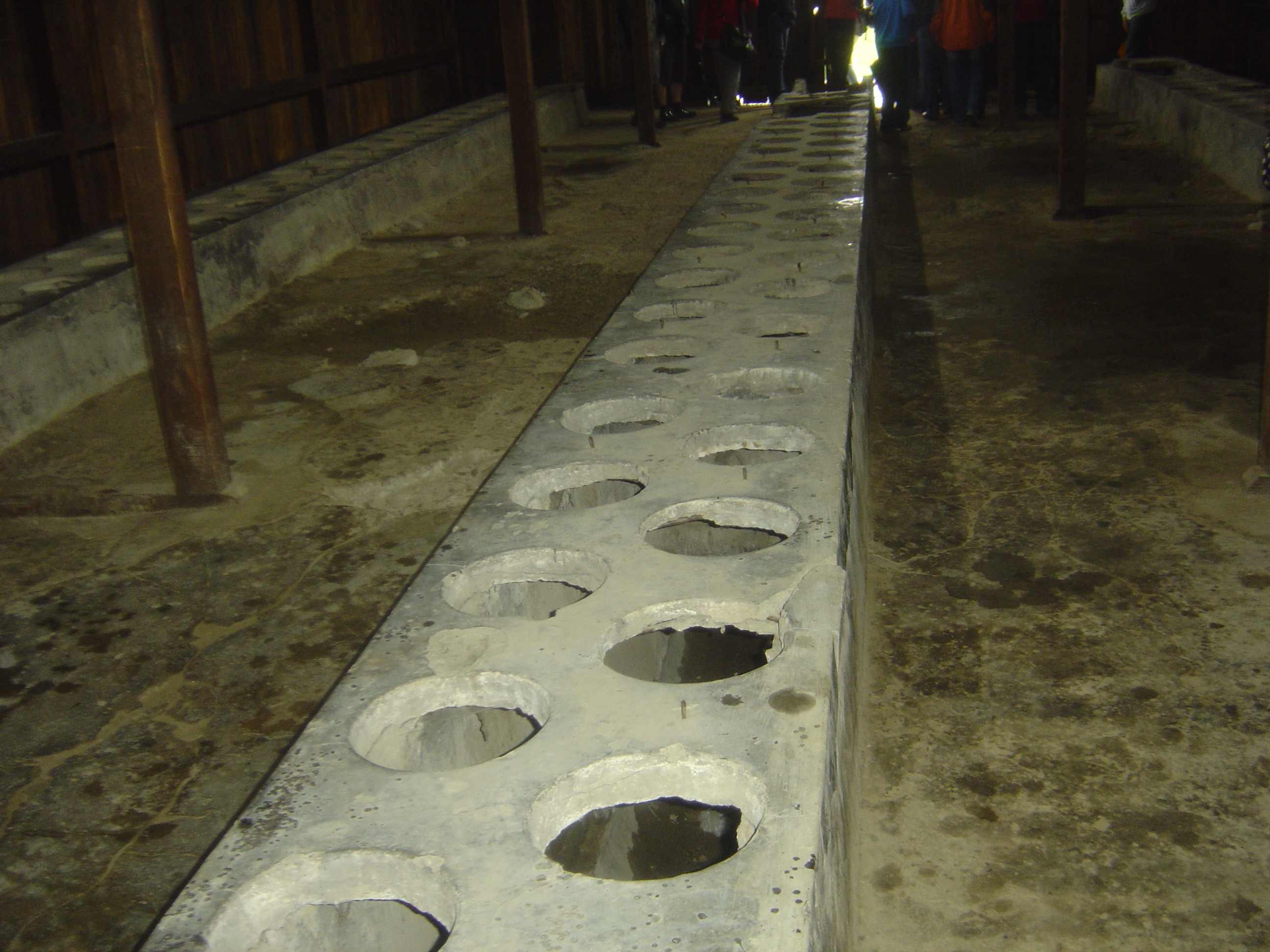 Auschwitz II Birkenau, Interior of a latrine in a wooden barracks